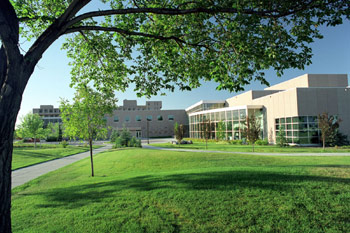 Riddell Centre and College West U of R July 2010